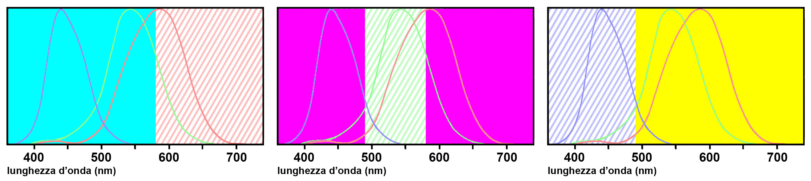 Ideal yellow, magenta, and cyan dyes for subtractive color synthesis. These dyes are ideal since they transmit all frequencies in their pass-bands and nothing in their stop-bands.